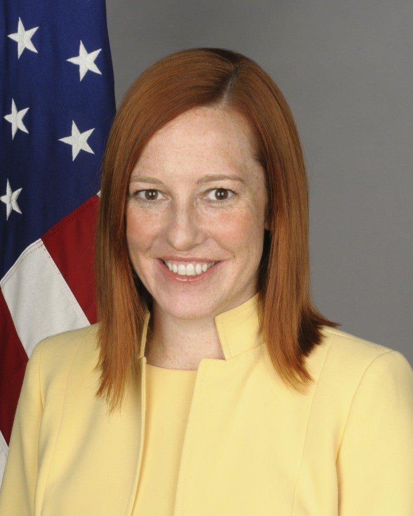 Official US Department of State photo of spokesperson Jennifer Psaki